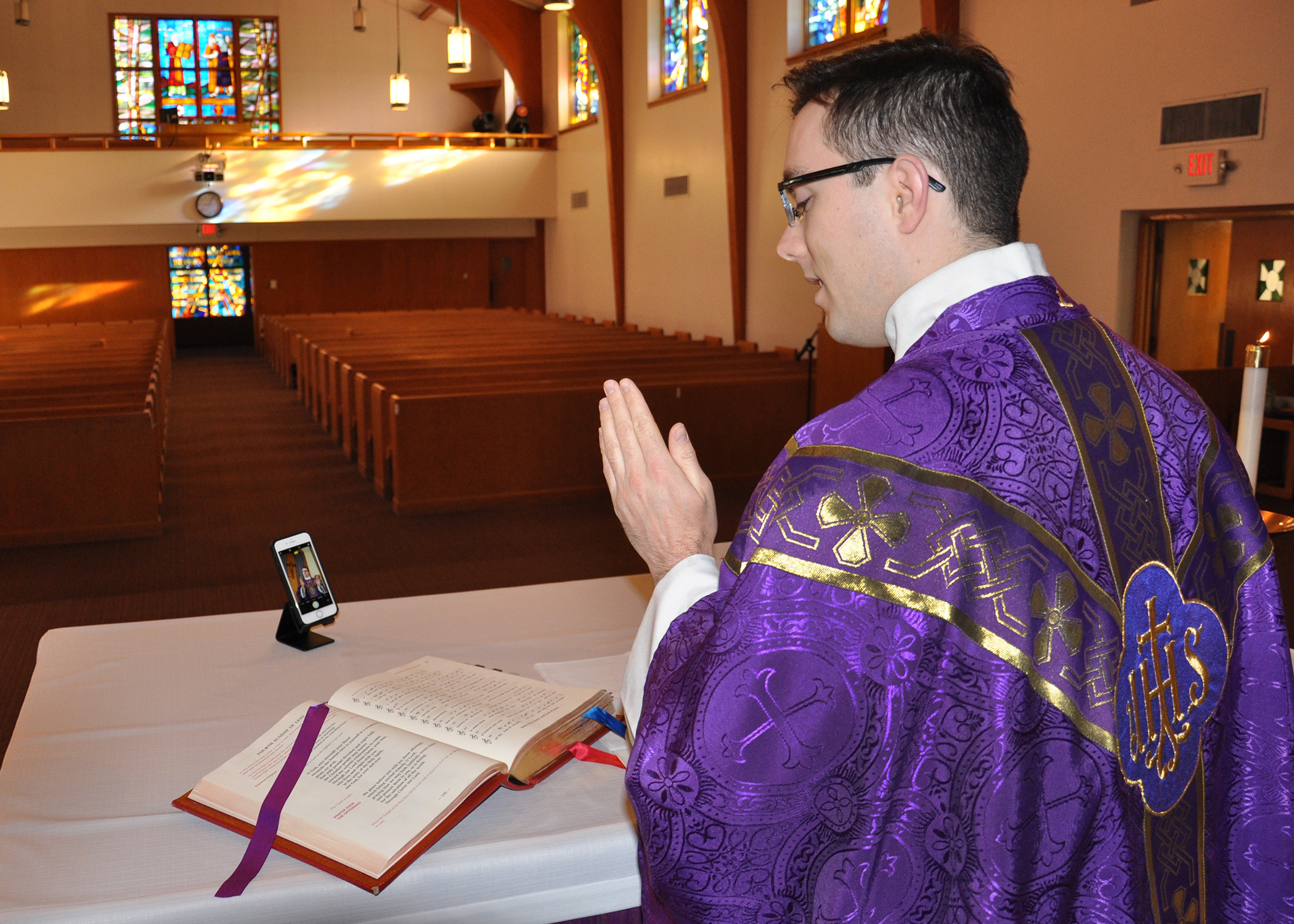 Chaplain 1st Lt. Philip O'Neill prepares for a virtual mass. Following the directions of the President and Governor Ricketts, in response to the CoronaVirus pandemic, the base chapel here is changing the format of all worship services from in-person to virtual worshipping.